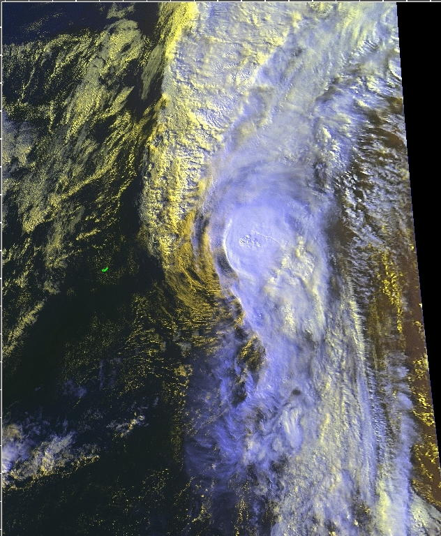 Hurricane Jose (1999) restrengthening to a minimal category one near Bermuda. From